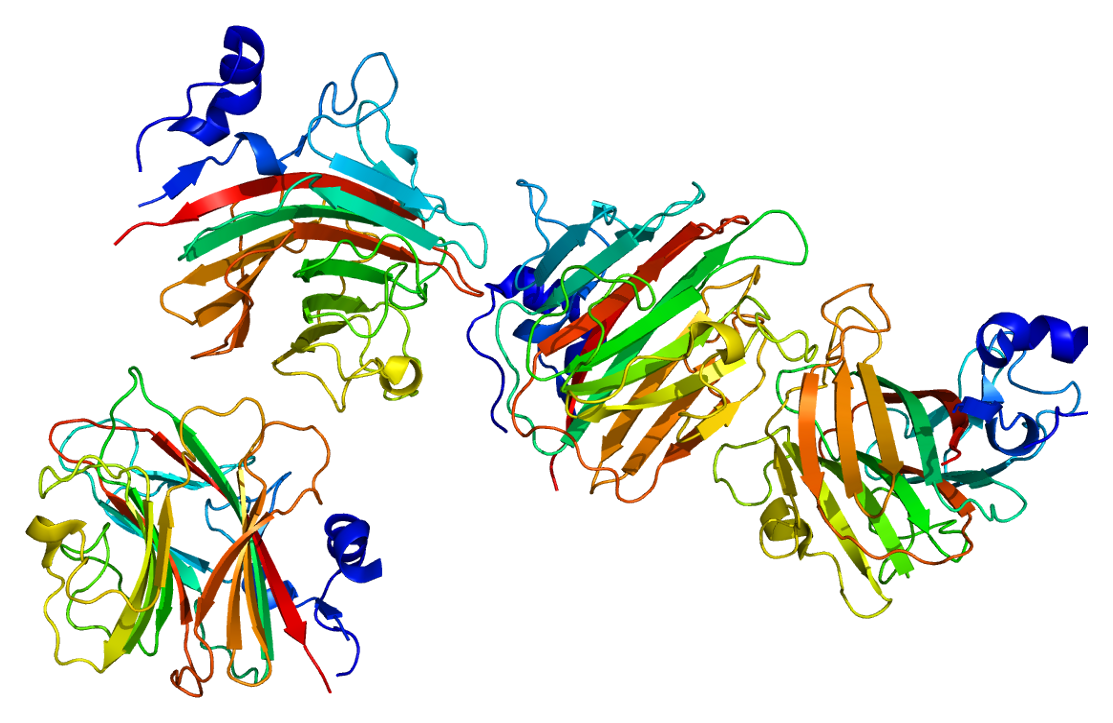 Structure of the LMAN1 protein. Based on PyMOL rendering of PDB 1r1z.